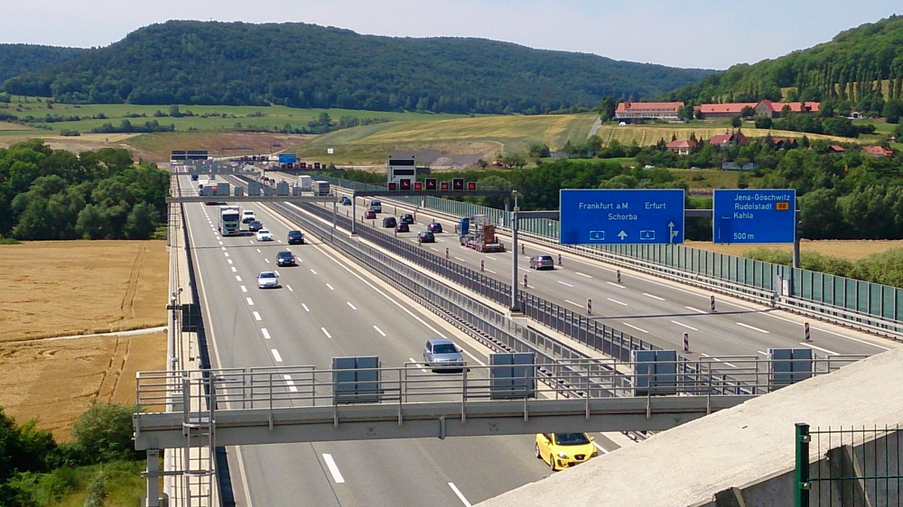 Die A4 bei Lobeda-West mit der Saaletalbrücke